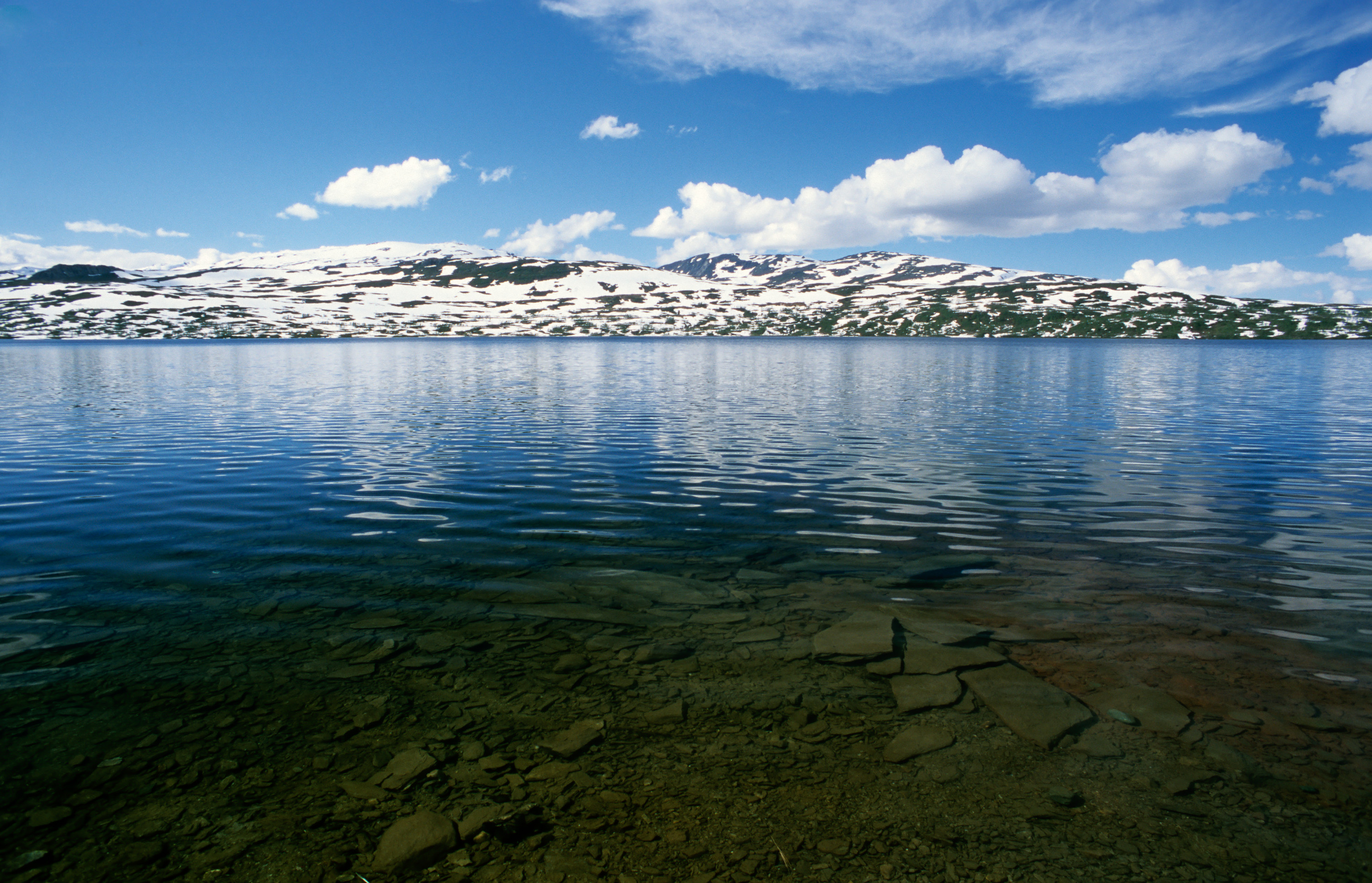 Lake Krutvatnet (Norway) in June